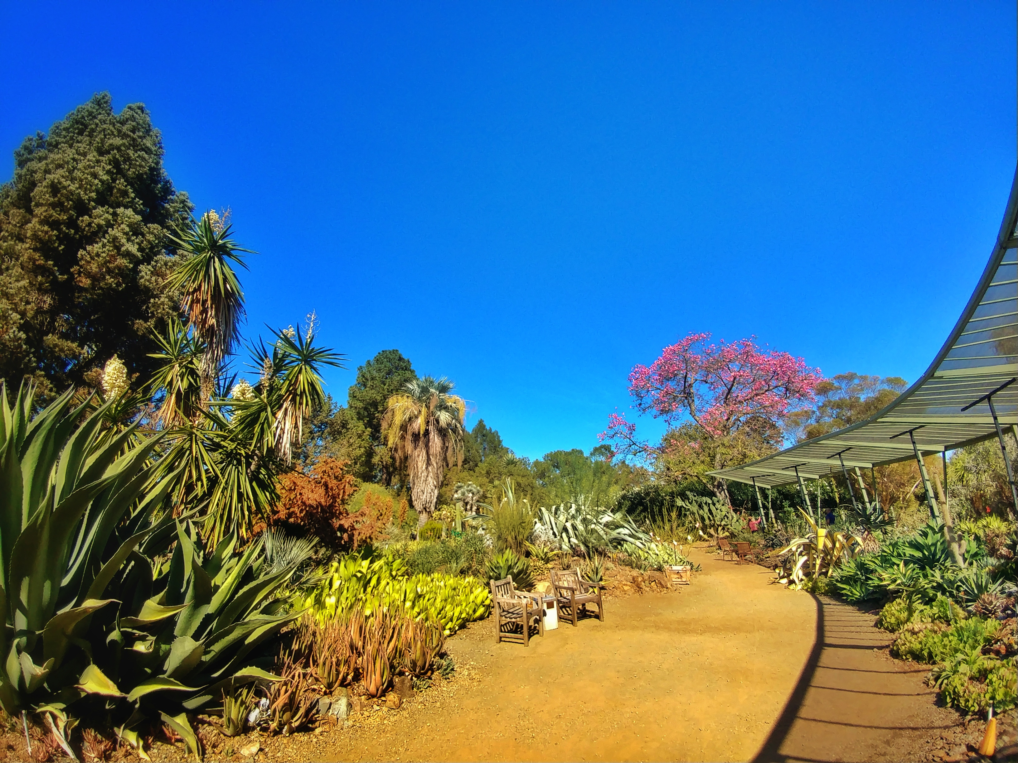 Ruth Bancroft Garden, Walnut Creek, California. October 2017.